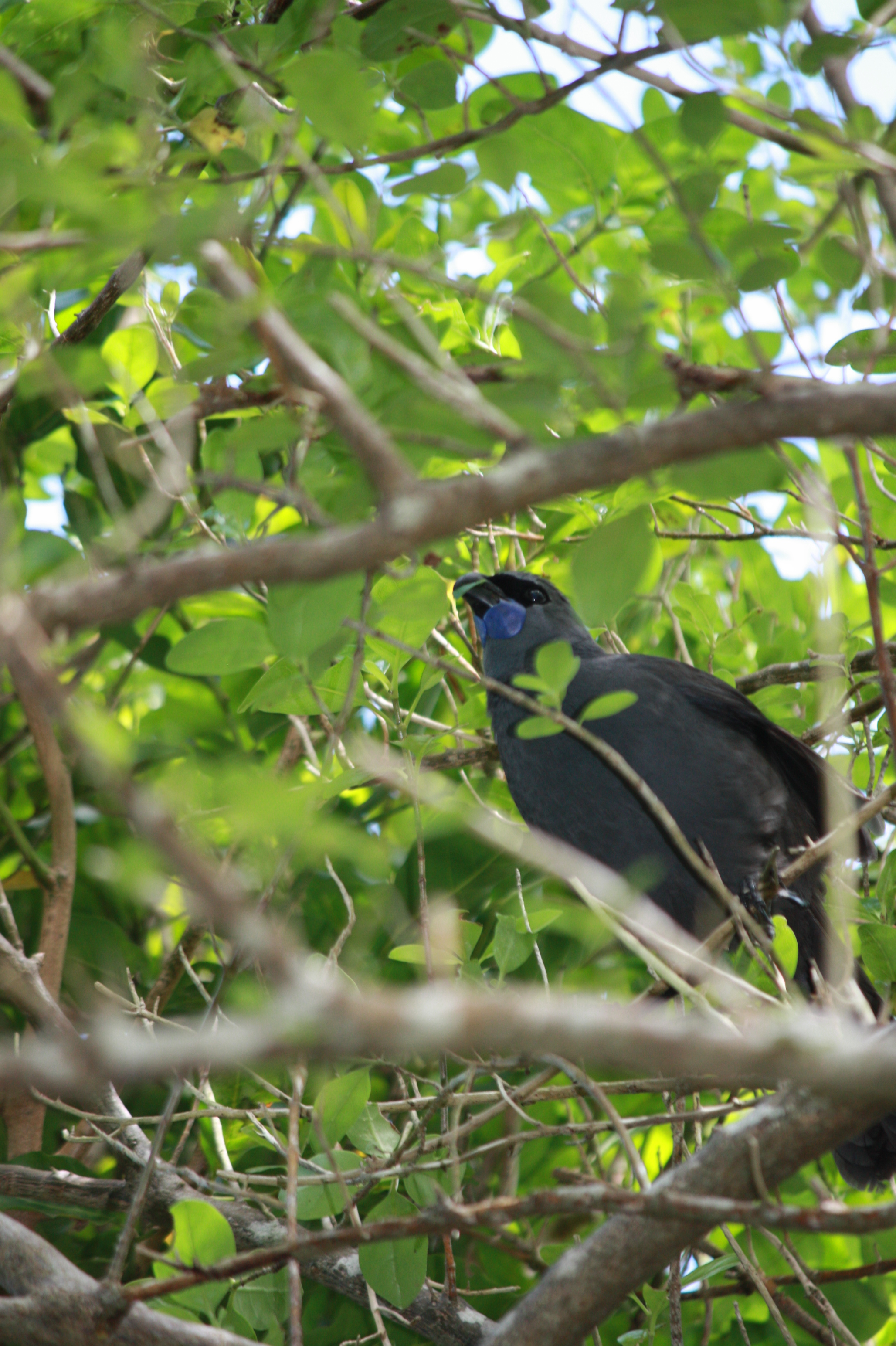 Kokako feeding in a coprosma tree on Hauturu (Little Barrier Island), New Zealand.